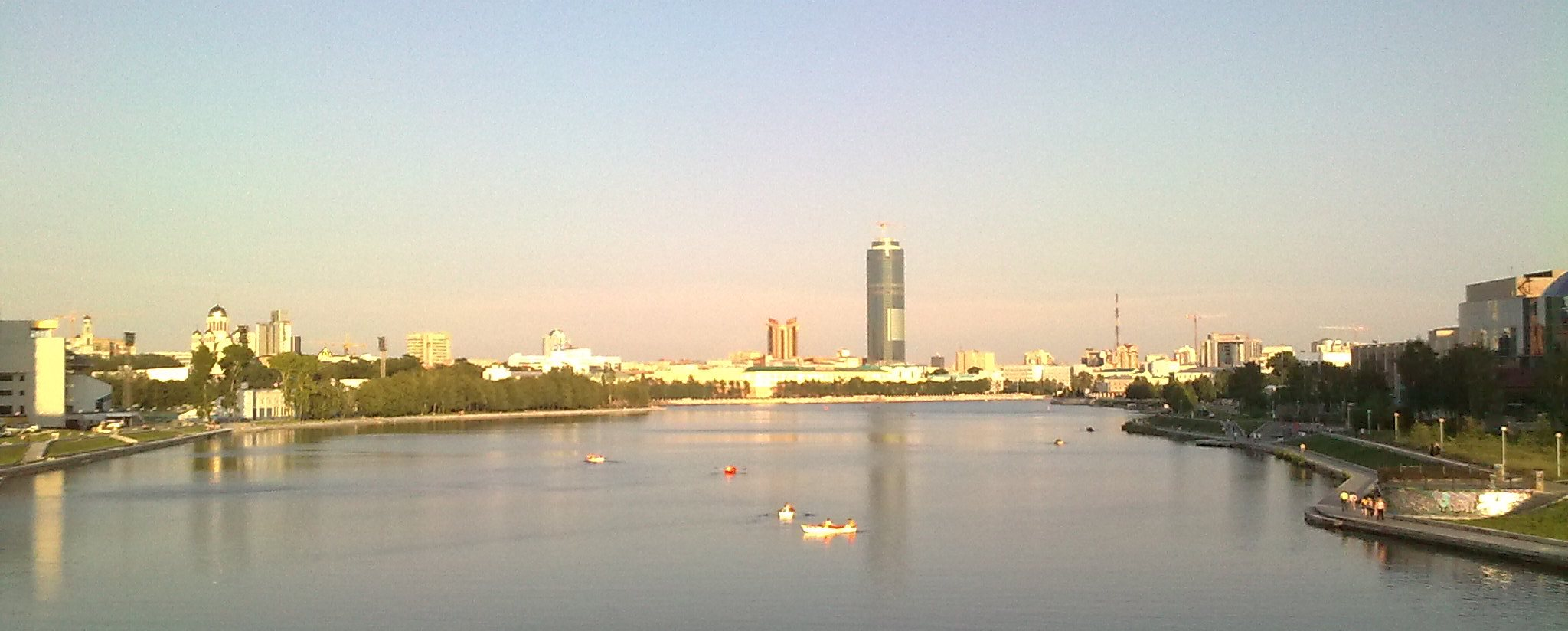 View on old part of Yekaterinburg over city pond